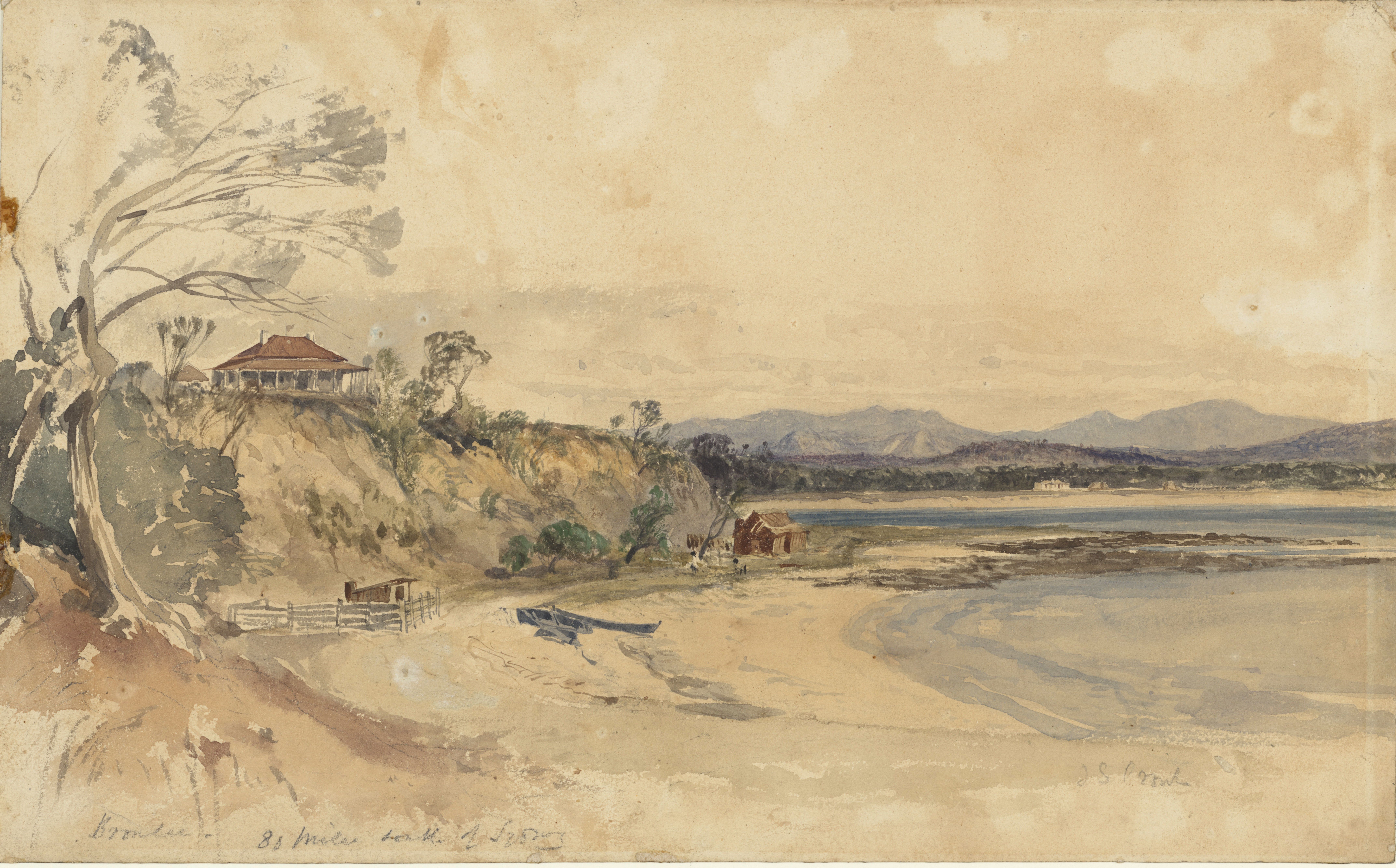 Broulee, New South Wales, Australia in 1843 - painting : watercolour and gouache by John Skinner Prout